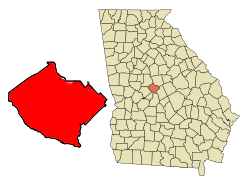 The geographic outline of the newly consolidated Macon-Bibb County, Ga.